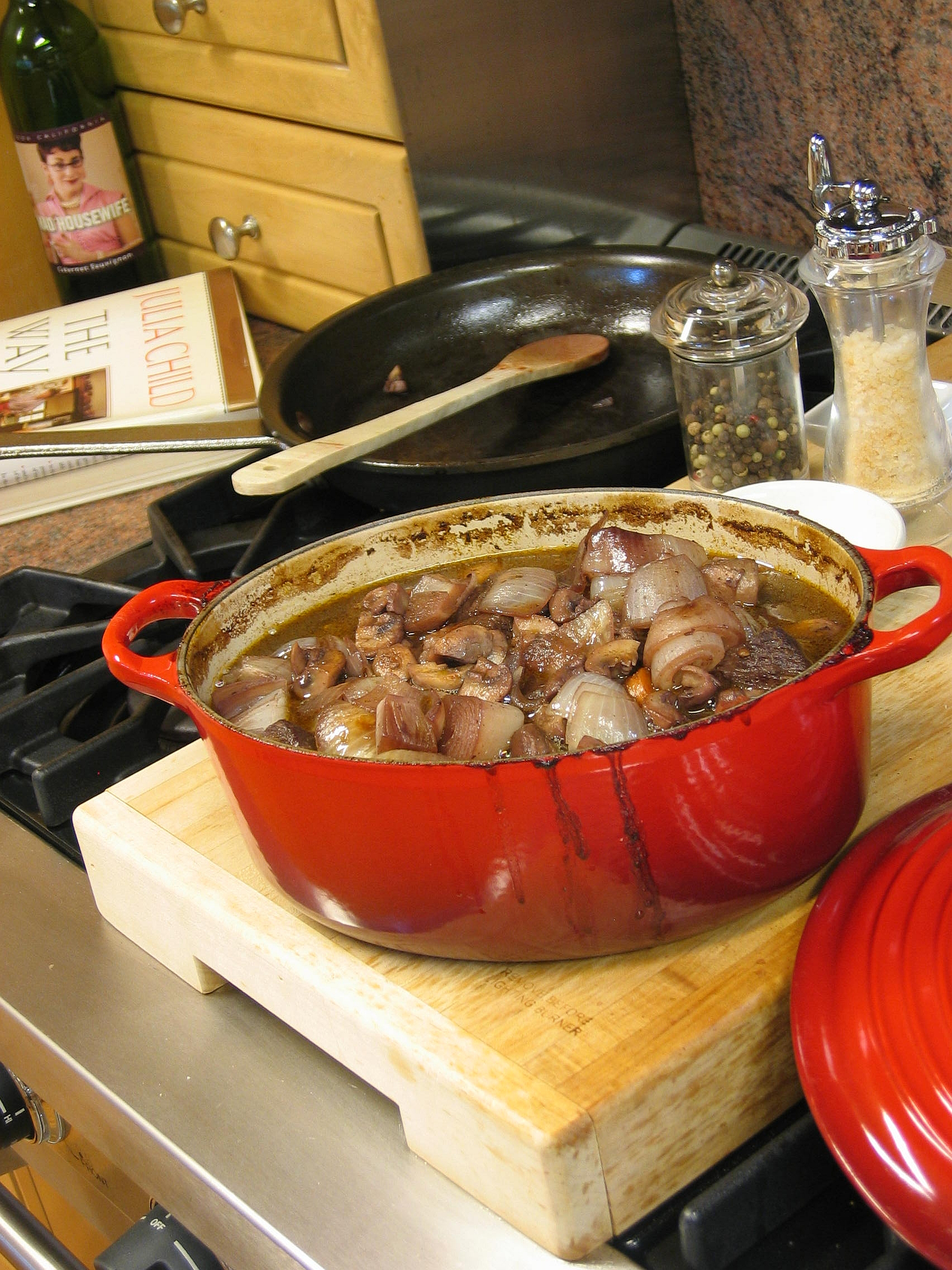 Julia Child's Boeuf Bourguignon